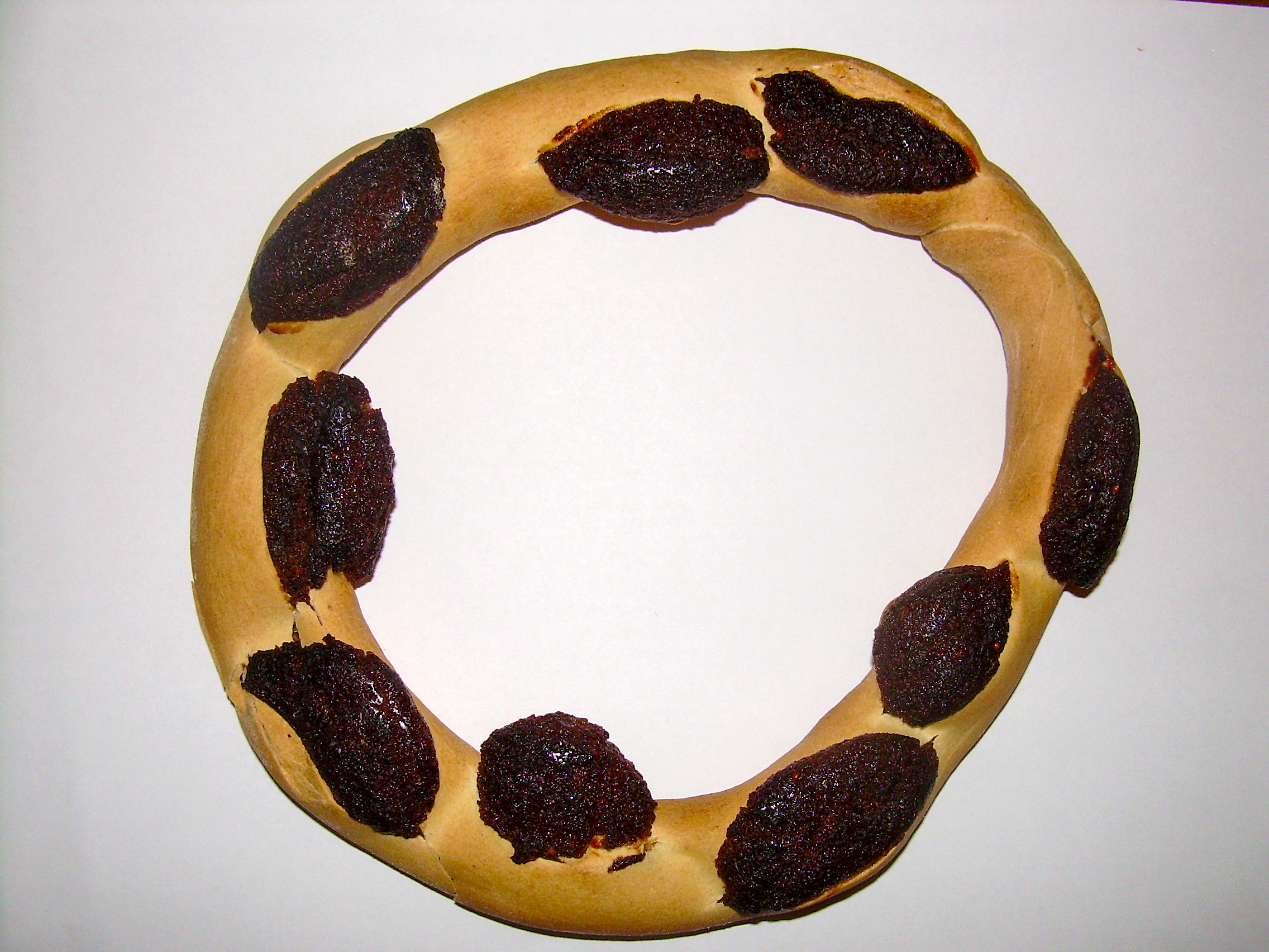 Qaghaq ta l'ghazel The Maltese version of Cornes de gazelles